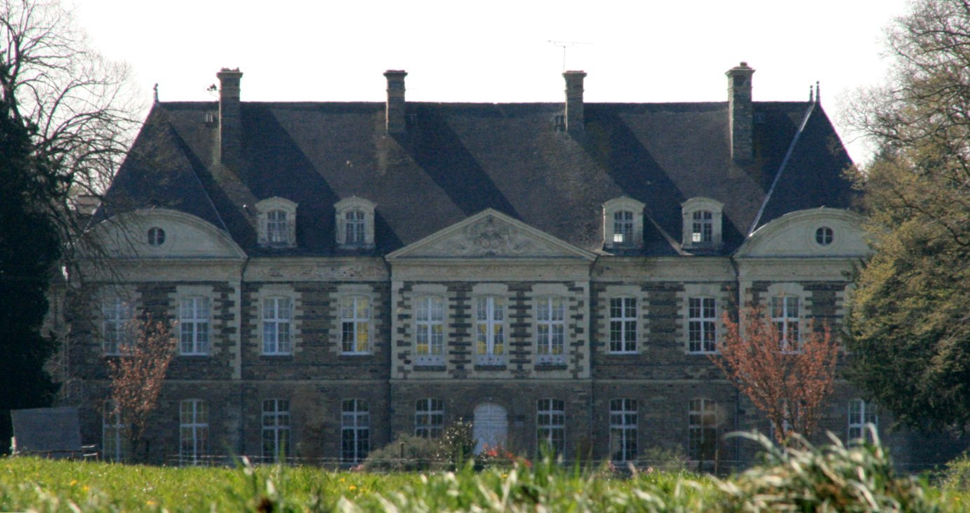 Castle of Piré, village of Piré-sur-Seiche, department of Ille-et-Vilaine, France. Built in 18th century. The Congregation of The Holy Spirit live in there.